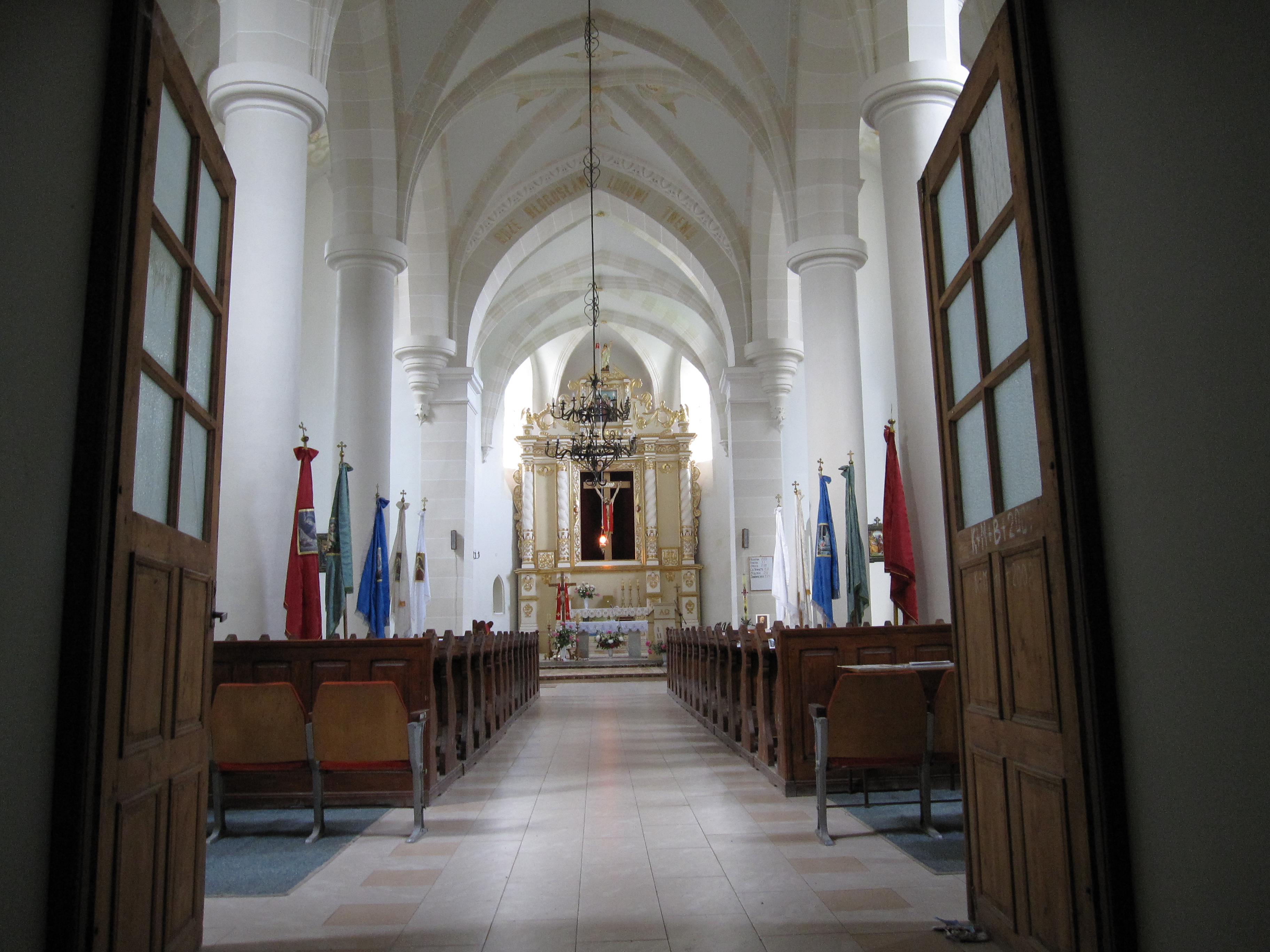 Rohatyn